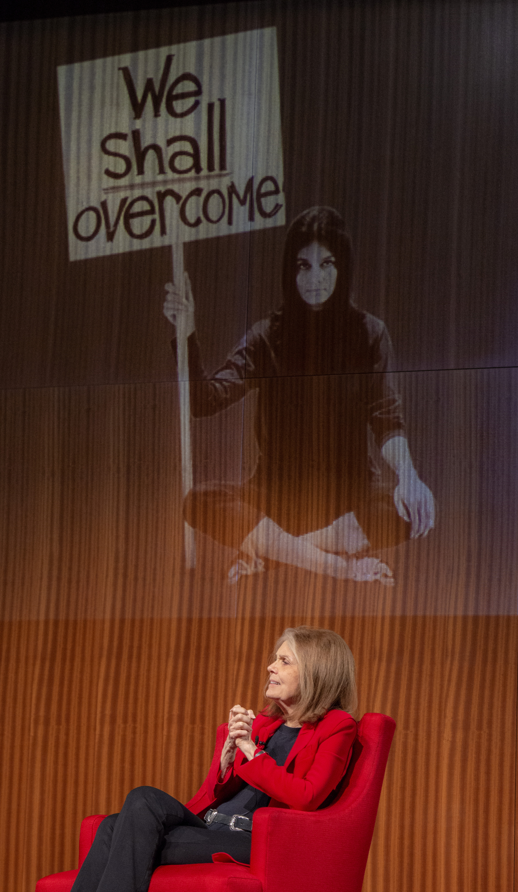 On Wednesday, November 6, 2019, Friends of the LBJ Library hosted a conversation with Gloria Steinem, who discussed her new book, The Truth Will Set You Free, But First it Will Piss You Off: Thoughts on Life, Love, and Rebellion. The conversation was moderated by Mark K. Updegrove, president and CEO of the LBJ Foundation.